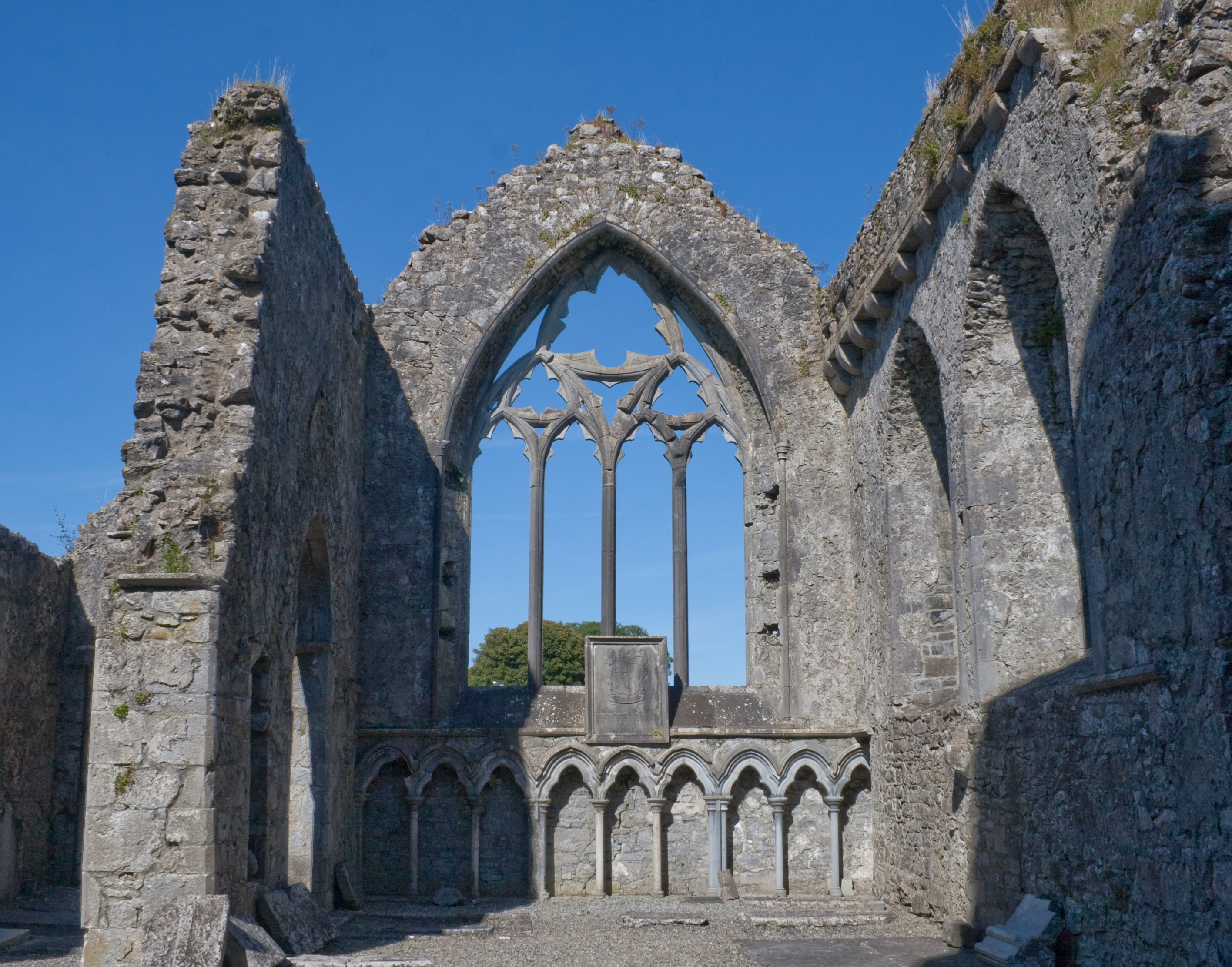 Athenry, County Galway, Ireland North transept of Athenry Priory.